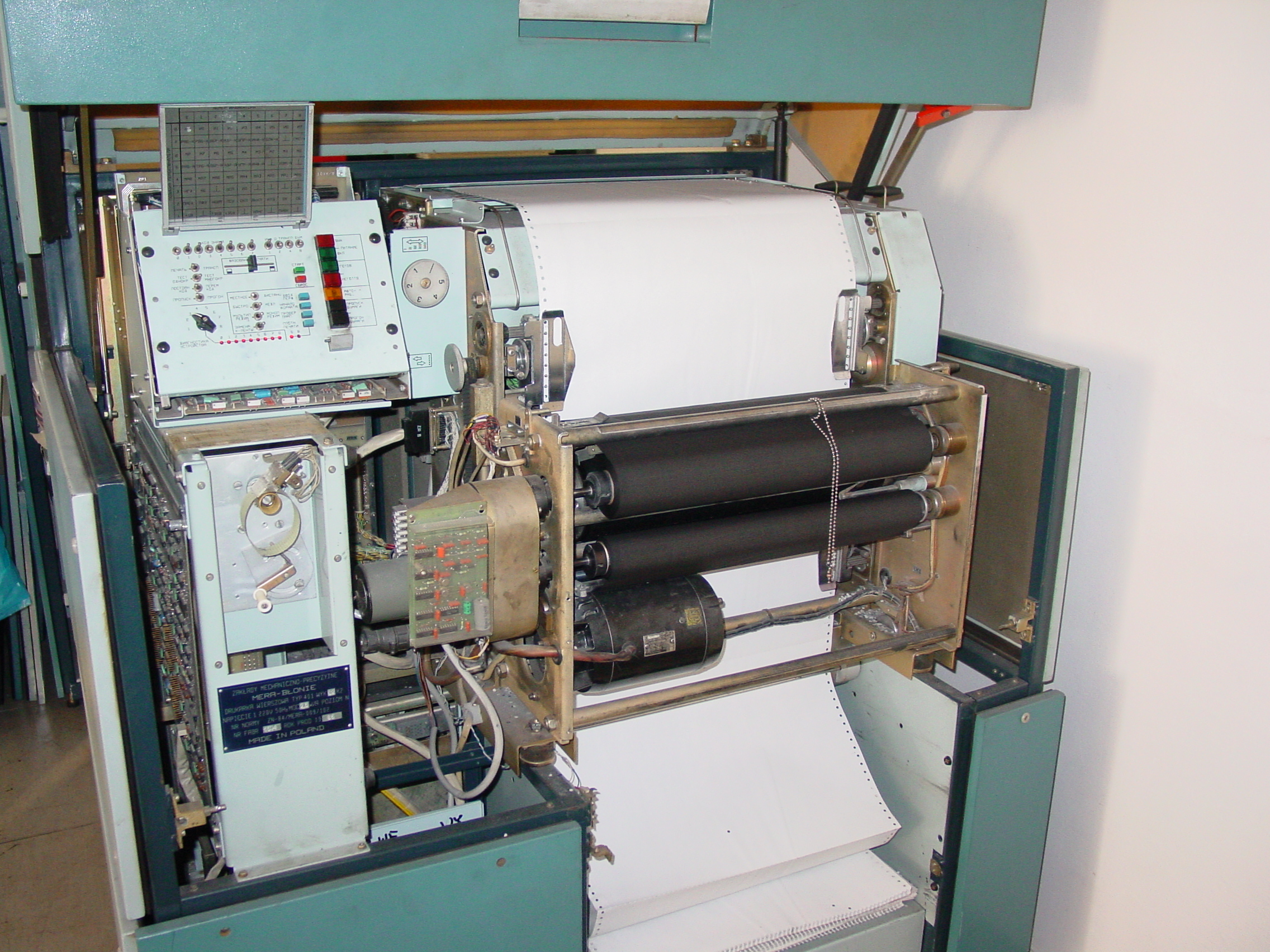 Polish line printer DW401, produced by MERA-BLONIE in 1985, still (2008) working.